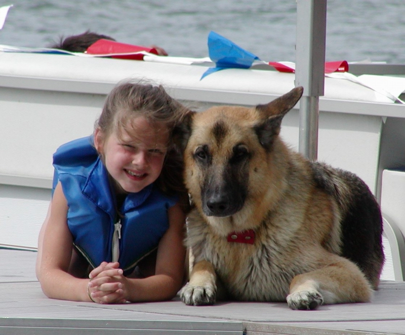 Little Cedar Lake (Wisconsin)